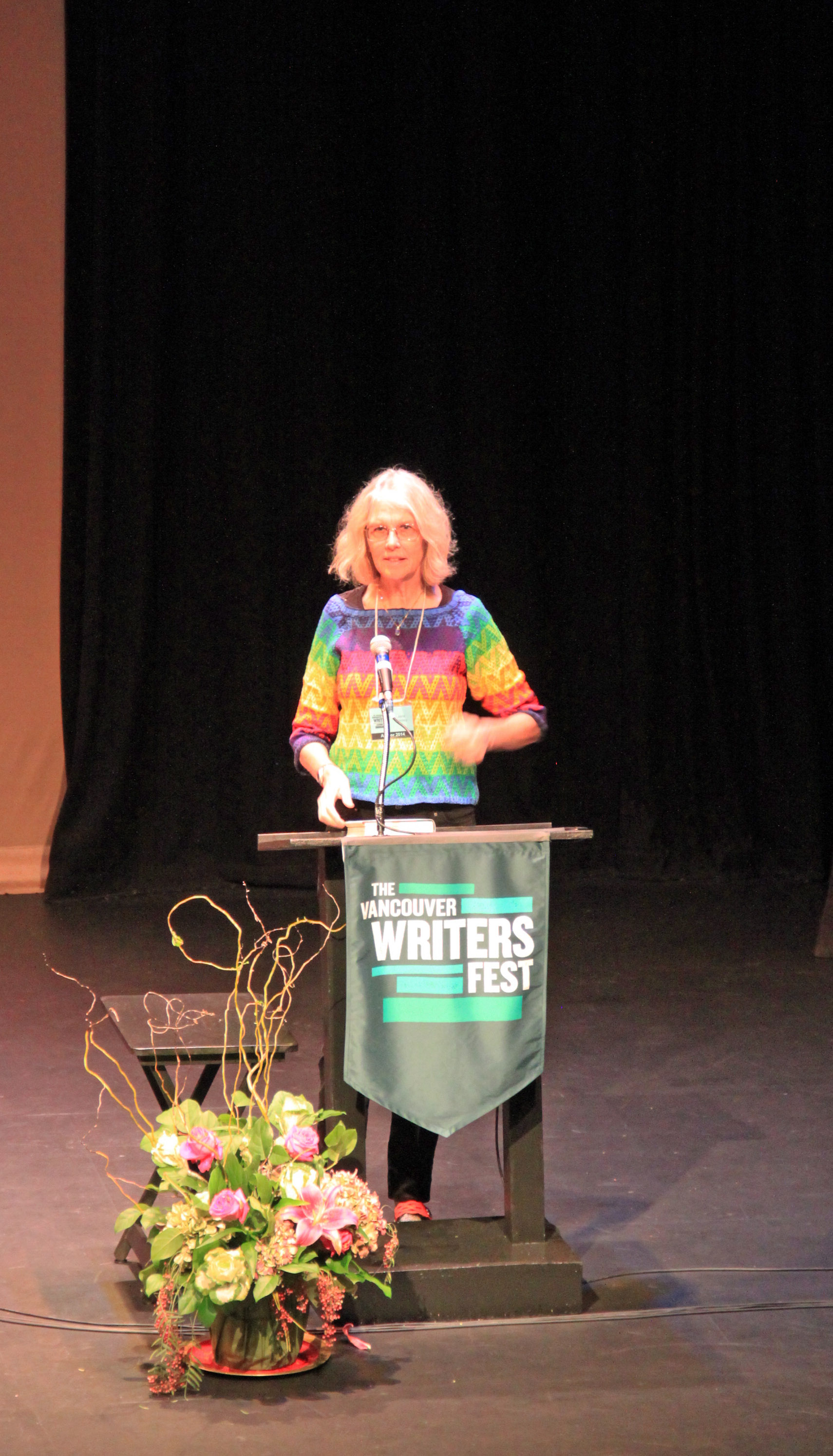 The colourful and talented Jane Smiley, speaking on her most recent novel, "Some Luck."